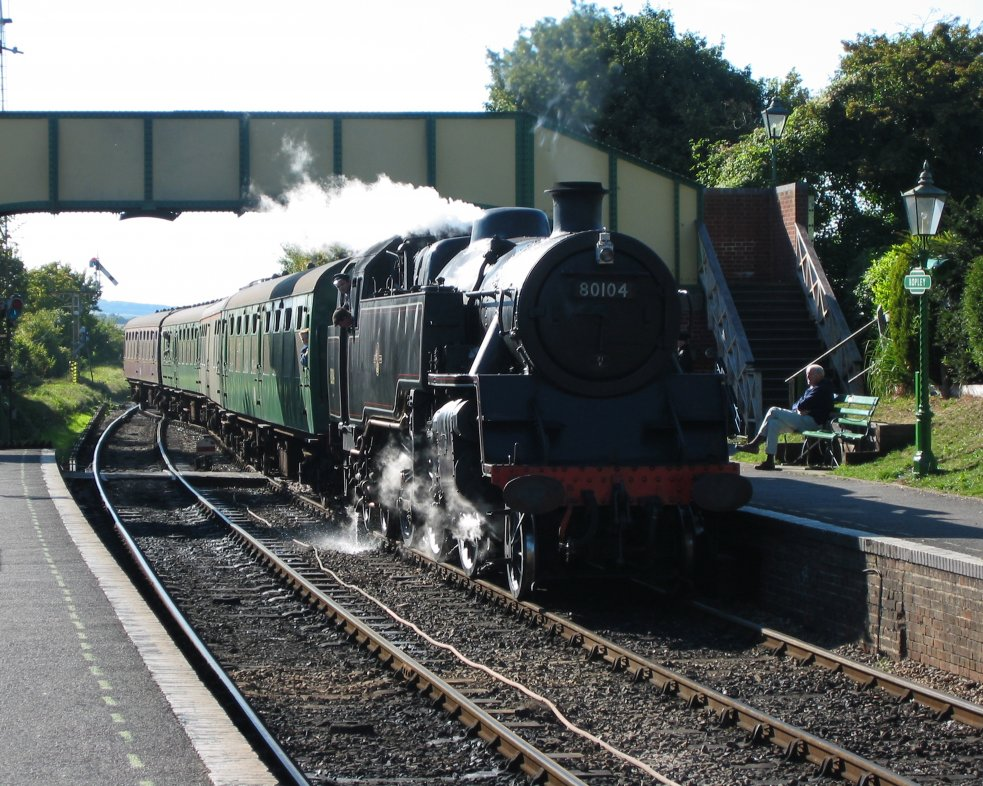 Train at Ropley railway station, Hampshire, England